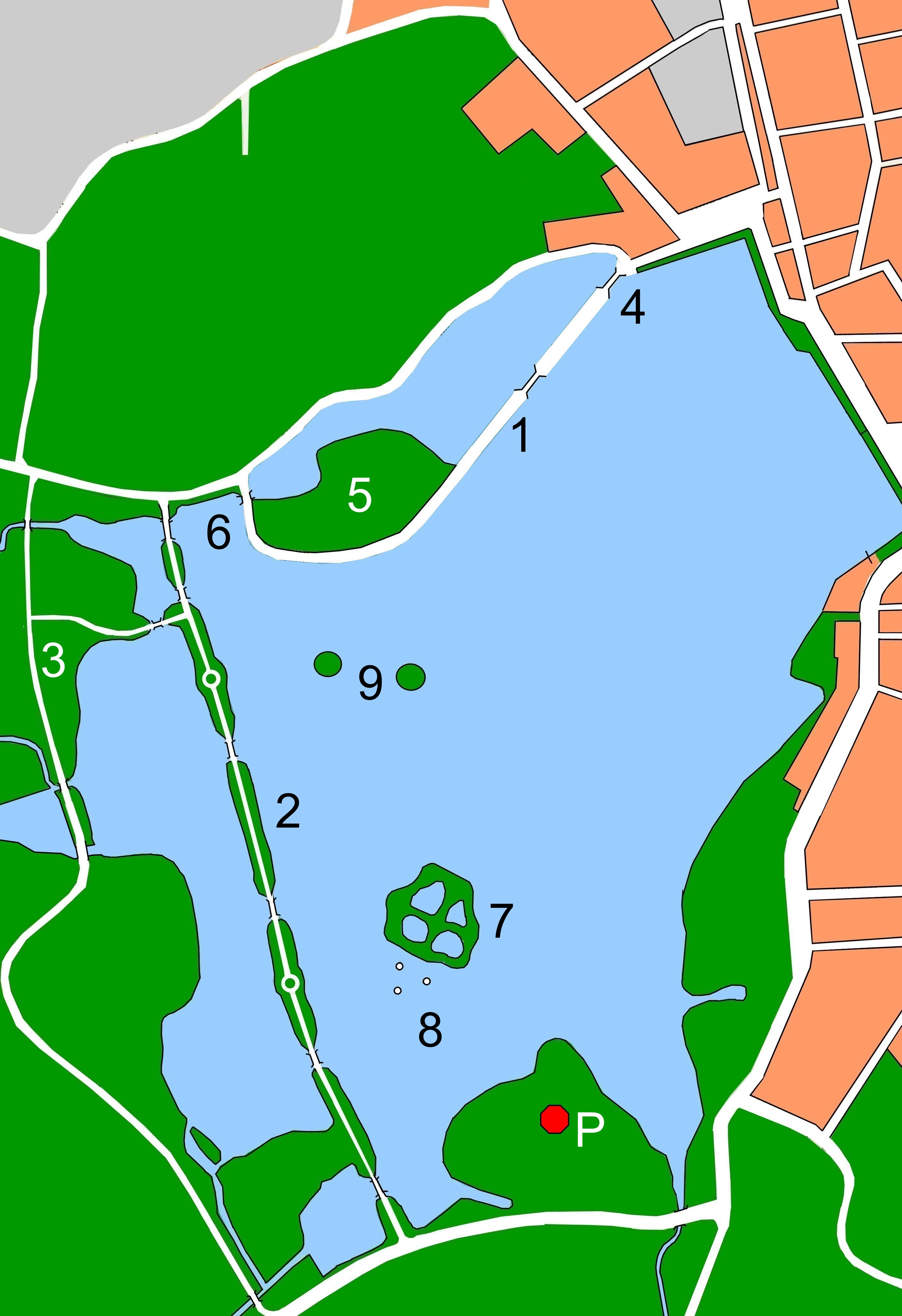 Plan of West Lake (China)